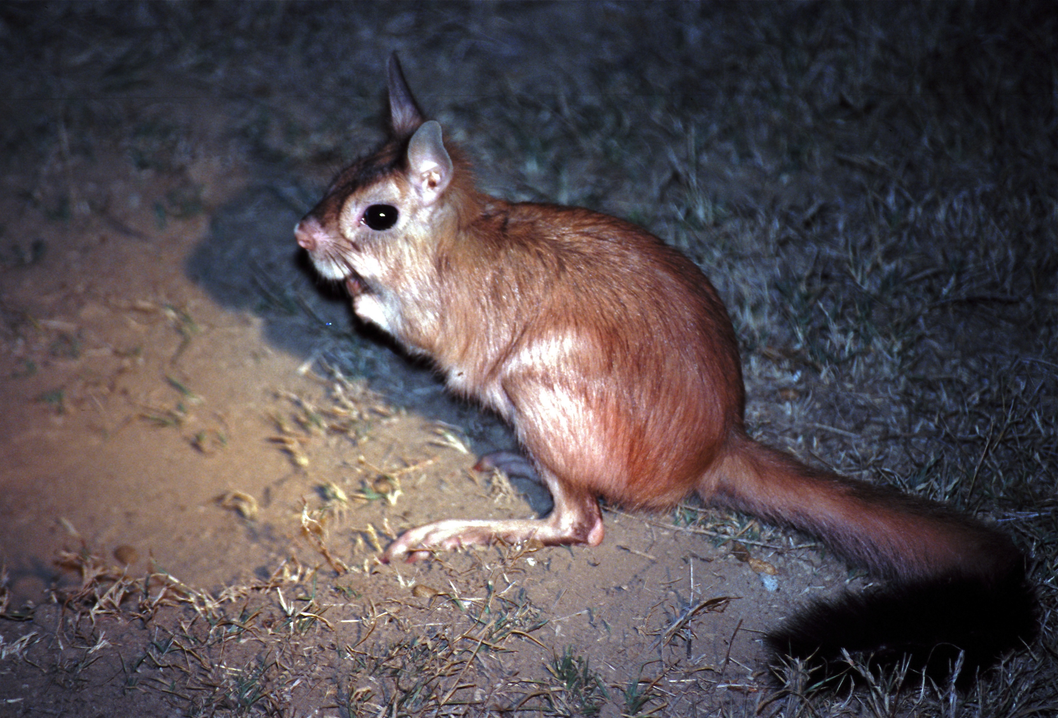 Mbwea Safari Camp, Nakuru, KENYA Scanned slide from 2004